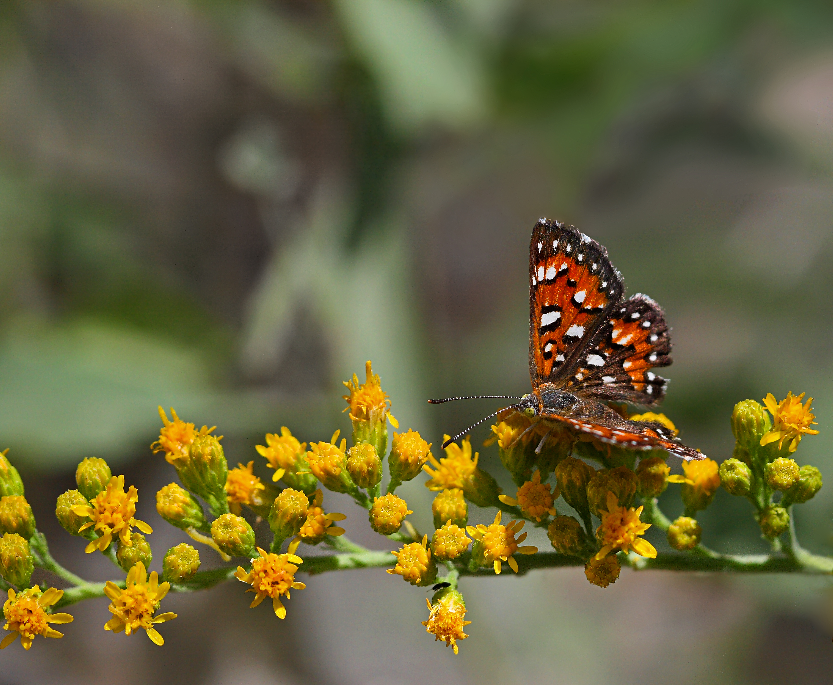 Mormon Metalmark (Apodemia mormo), California